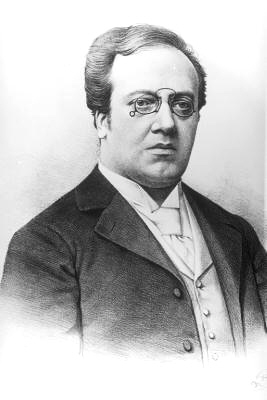 The image of Austrian conductor Ferdinand Löwe (1865-1925)